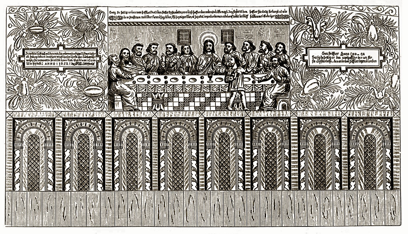 Drawings from Gol Stave Church by Nicolay Nicolaysen (1817-1911), dating of the drawing is unknown